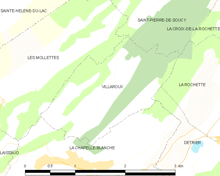 Map of French municipality Villaroux